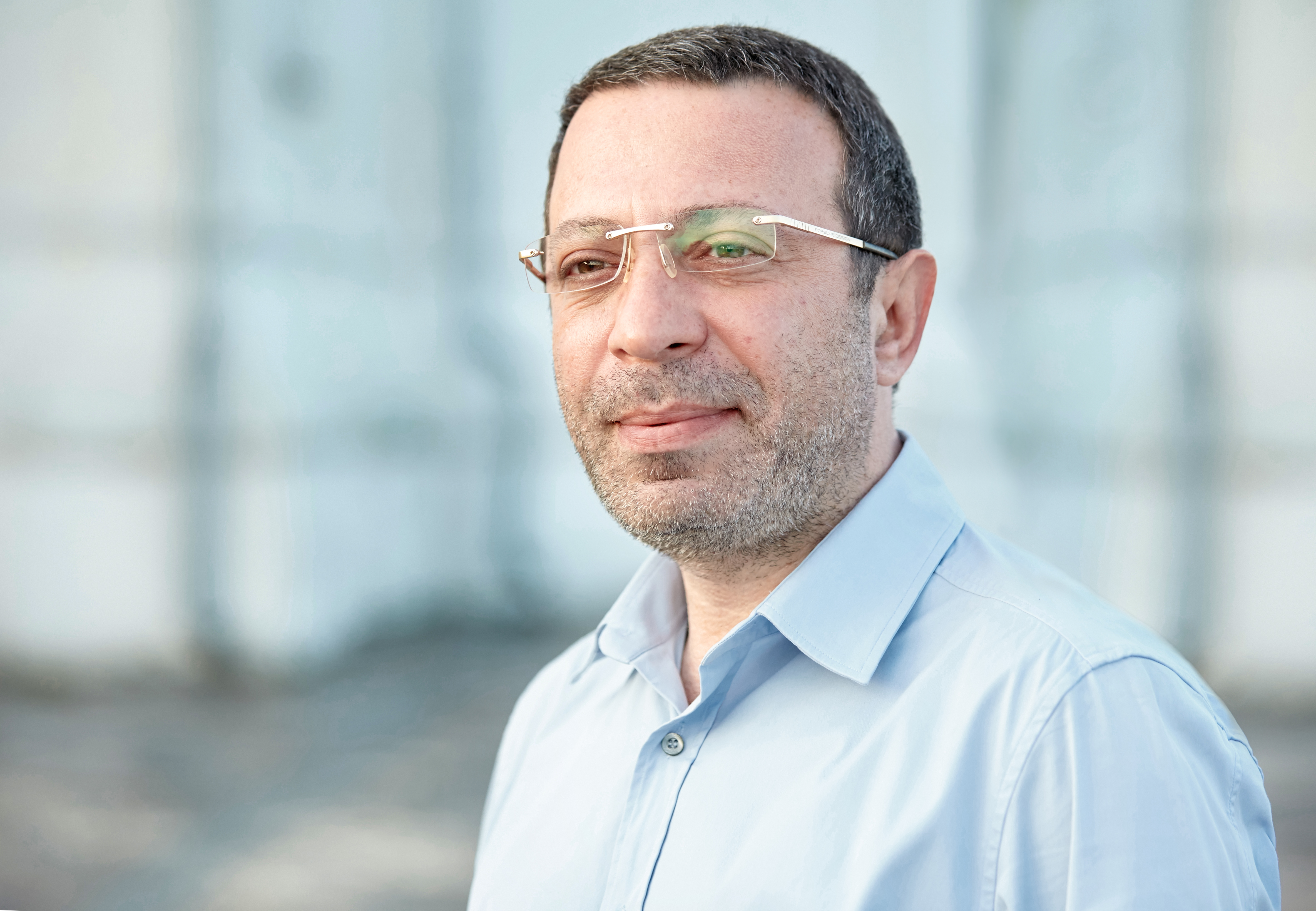 Korban Gennadij